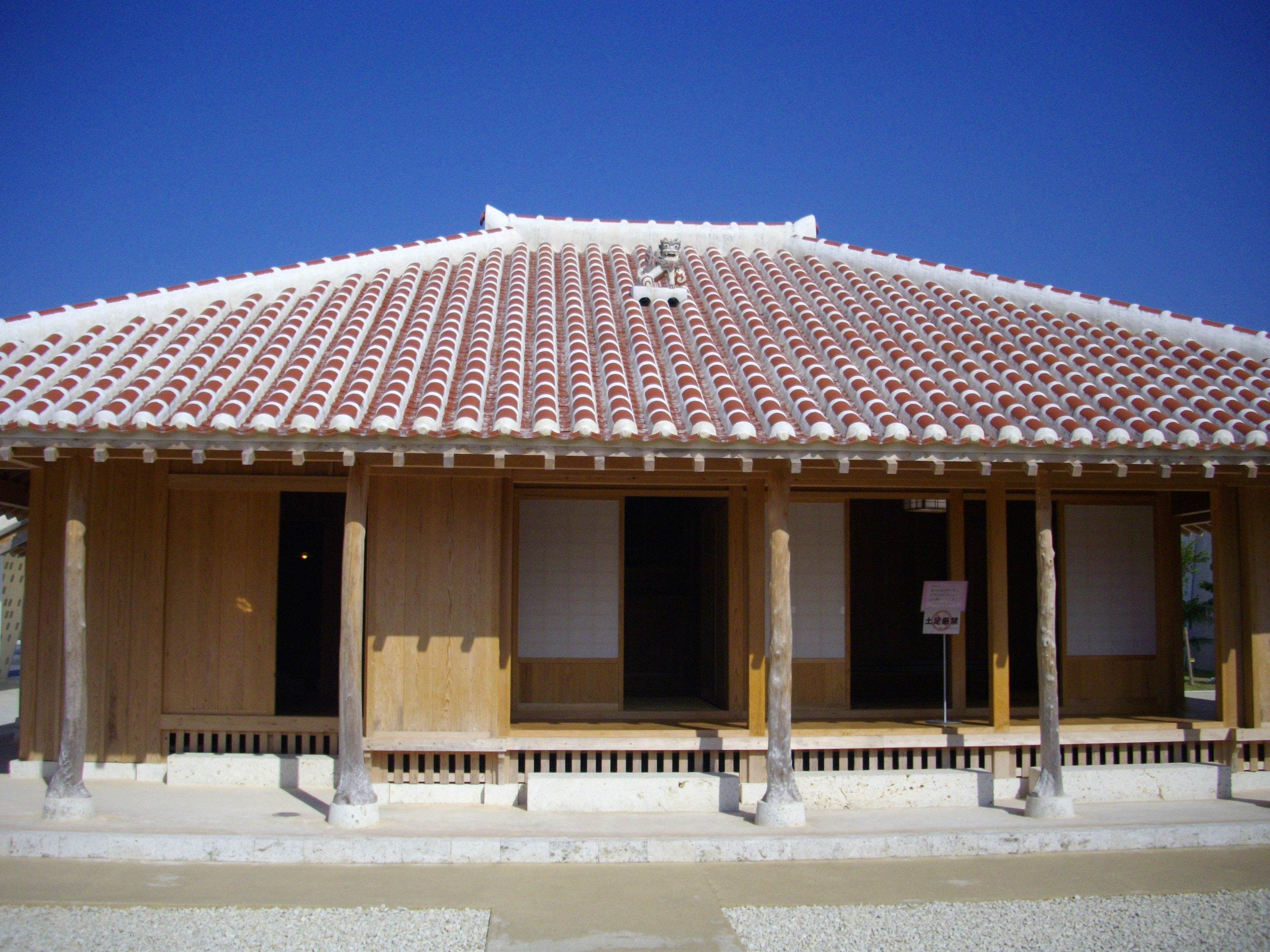 Reproduction of a traditional style Okinawan home (民家) at the Okinawan Prefectural Museum (沖縄県立博物館). Photo taken myself (LordAmeth) on 12 March 2008.